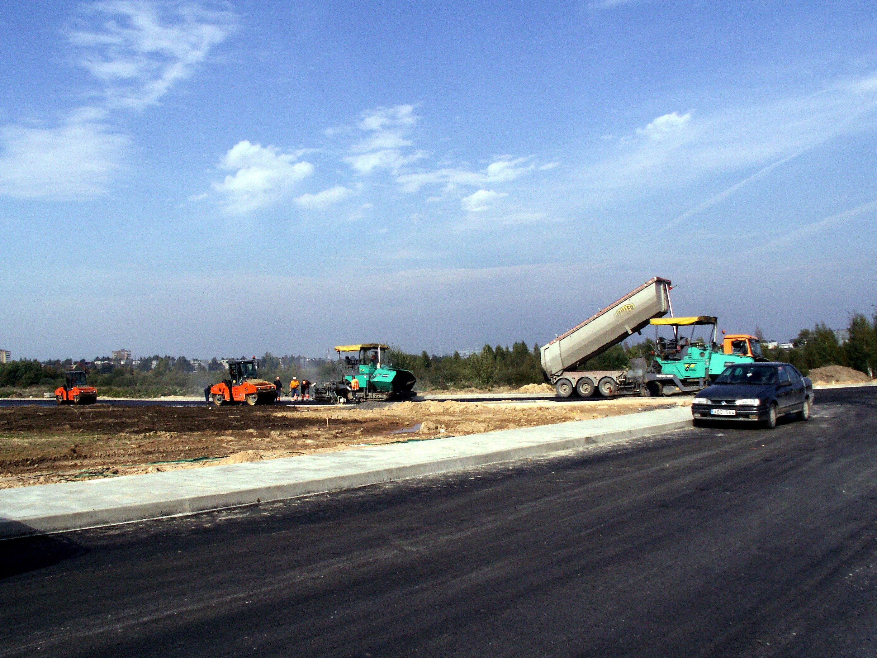 Baltų str., Šiauliai, Lietuva